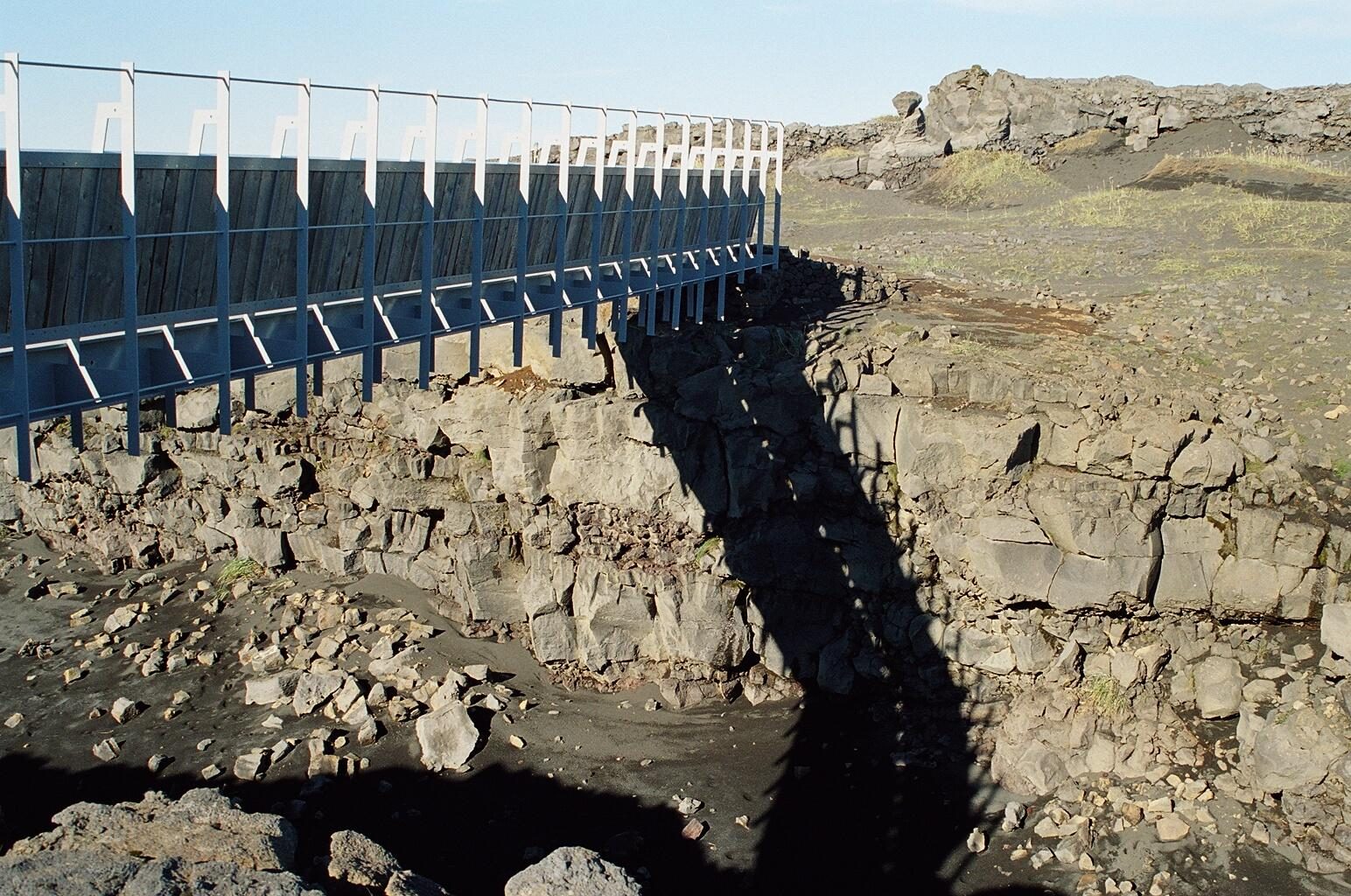 Bridge between the continents, Iceland, GNU-FDL The picture was taken by my-self in september 2004.